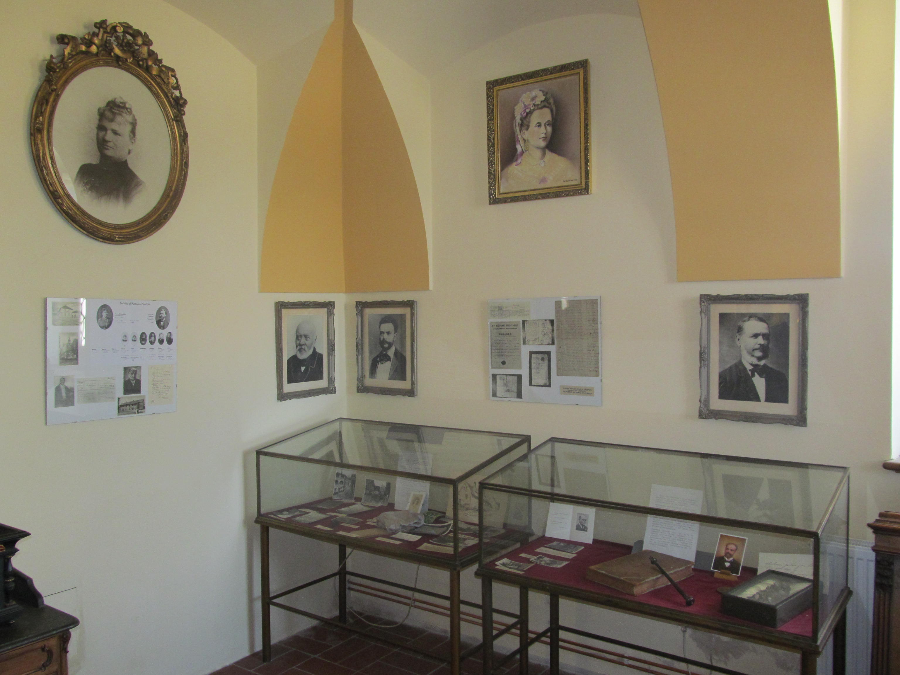 Interior of the Antonín Dvořák´s memorial in Zlonice